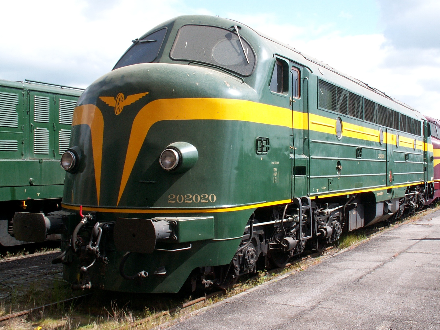 Diesel locomotive 202.020 from belgian heritage railway association "Patrimoine Ferroviaire et Touristique" (PFT), as seen at the Saint Ghislain loc yard, owned by the association, during on open door event. This locomotive, build 1955 by Anglo Franco Belge under licence of General Motors' Electro Motive Division was originally purchased by the Belgian Railways (SNCB-NMBS) and sold to the Luxemburgish railways (CFL) before it's delivery, as part of Class 1600 with number 1602. Unlike it's belgian counterpart (Class 52, former type 202), the luxemburgish loc have stayed in their original bodywork (with US F-class based so calles "big nose" or "bulldog nose" style). PFT decided to by one of teh retired CFL locs and paint it back to the belgian livery of the sixties (green with yellow stripes making a kind of moustaceh on both ends). Since then, PFT also bought CFL's 1603 after the bankruptcy of the Vennbahn, another heritae railway. This one i sstill in his CFL livery.